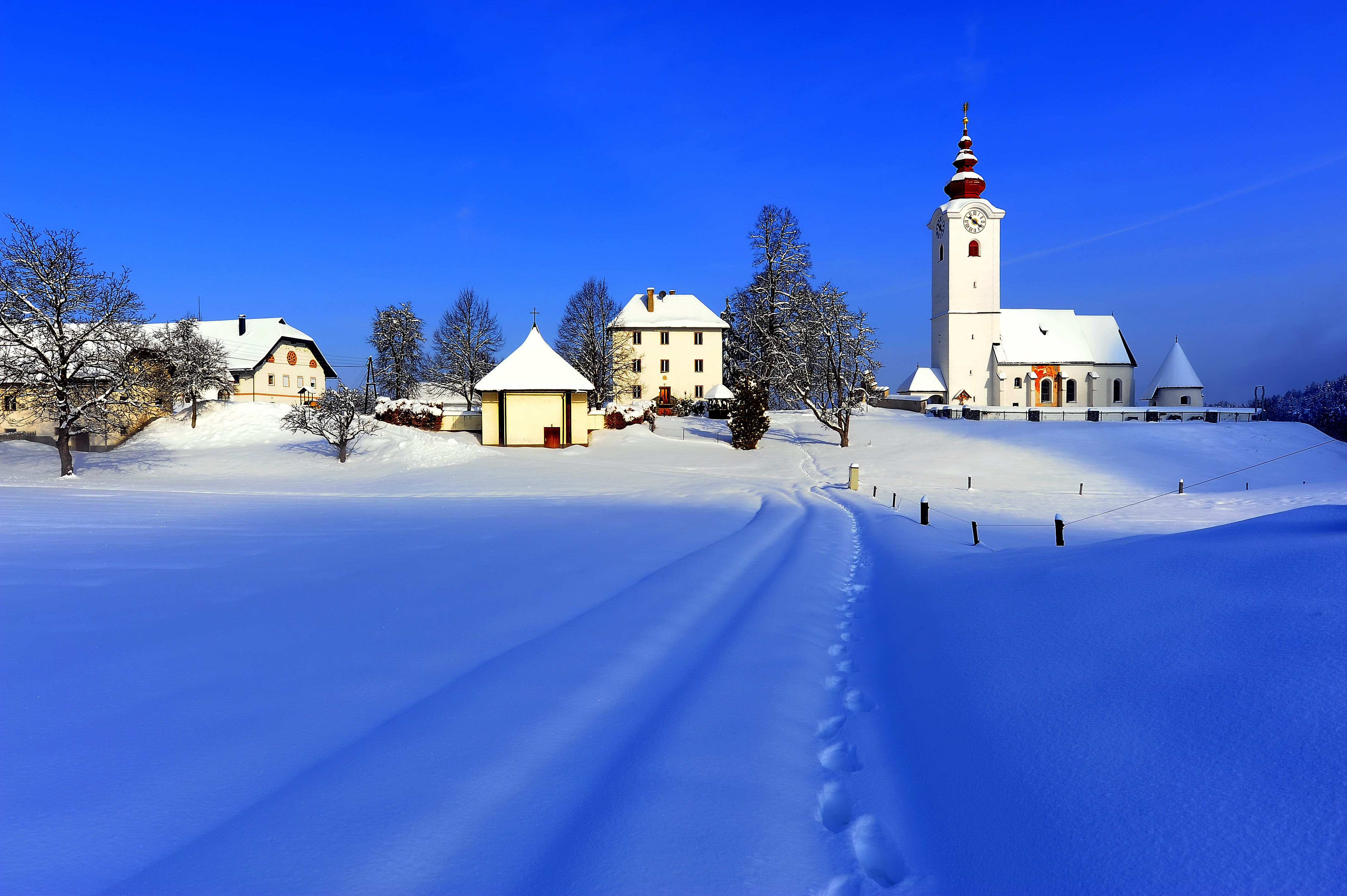 Mortuary, rectory, parish church Saint Lambertus and cemetery with charnel house in Radsberg, market town Ebenthal, district Klagenfurt Land, Carinthia, Austria, EU